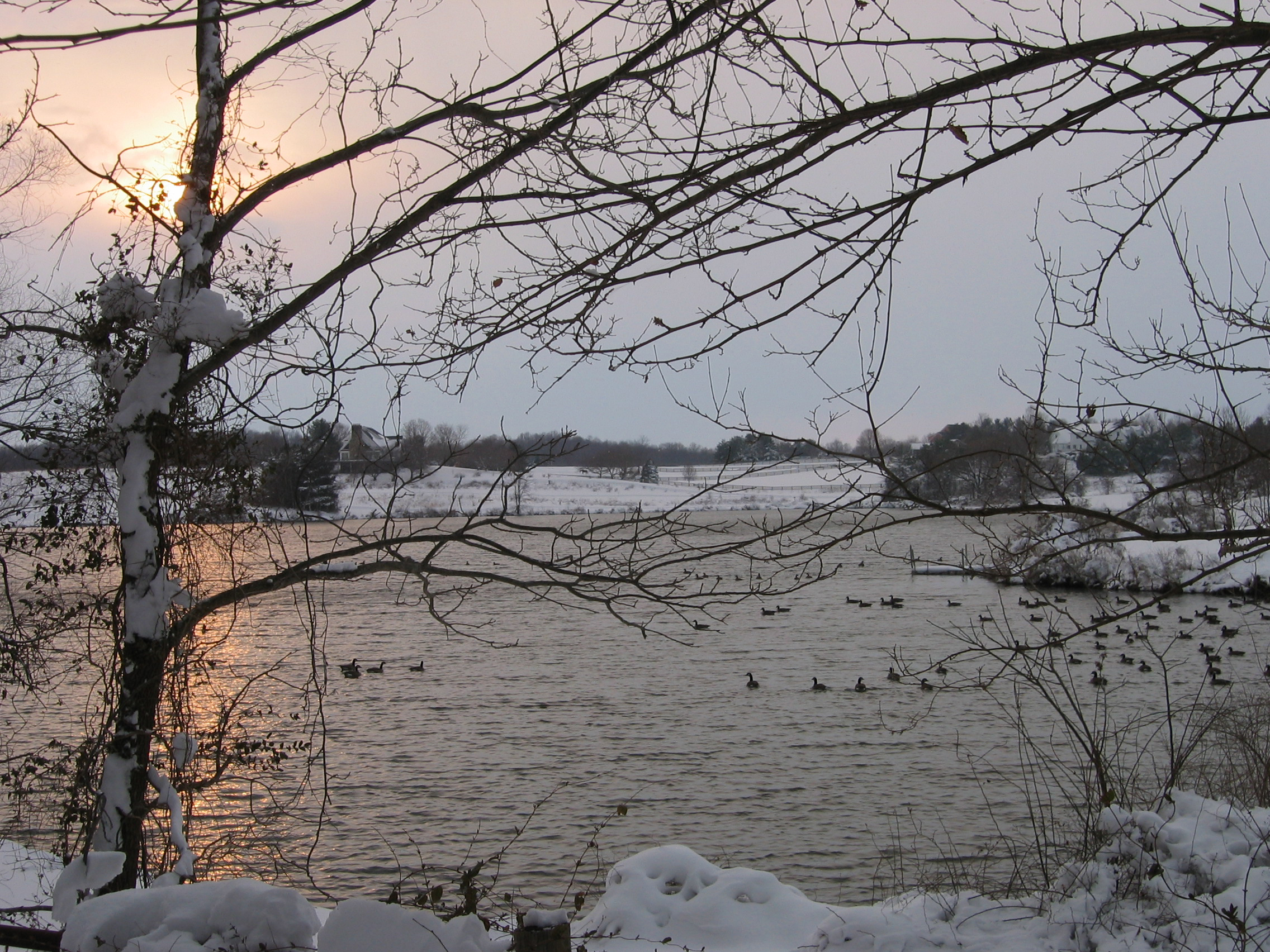 Rural pond area, near Rachel Carson Conservation Park, in northeast Montgomery County, Maryland.